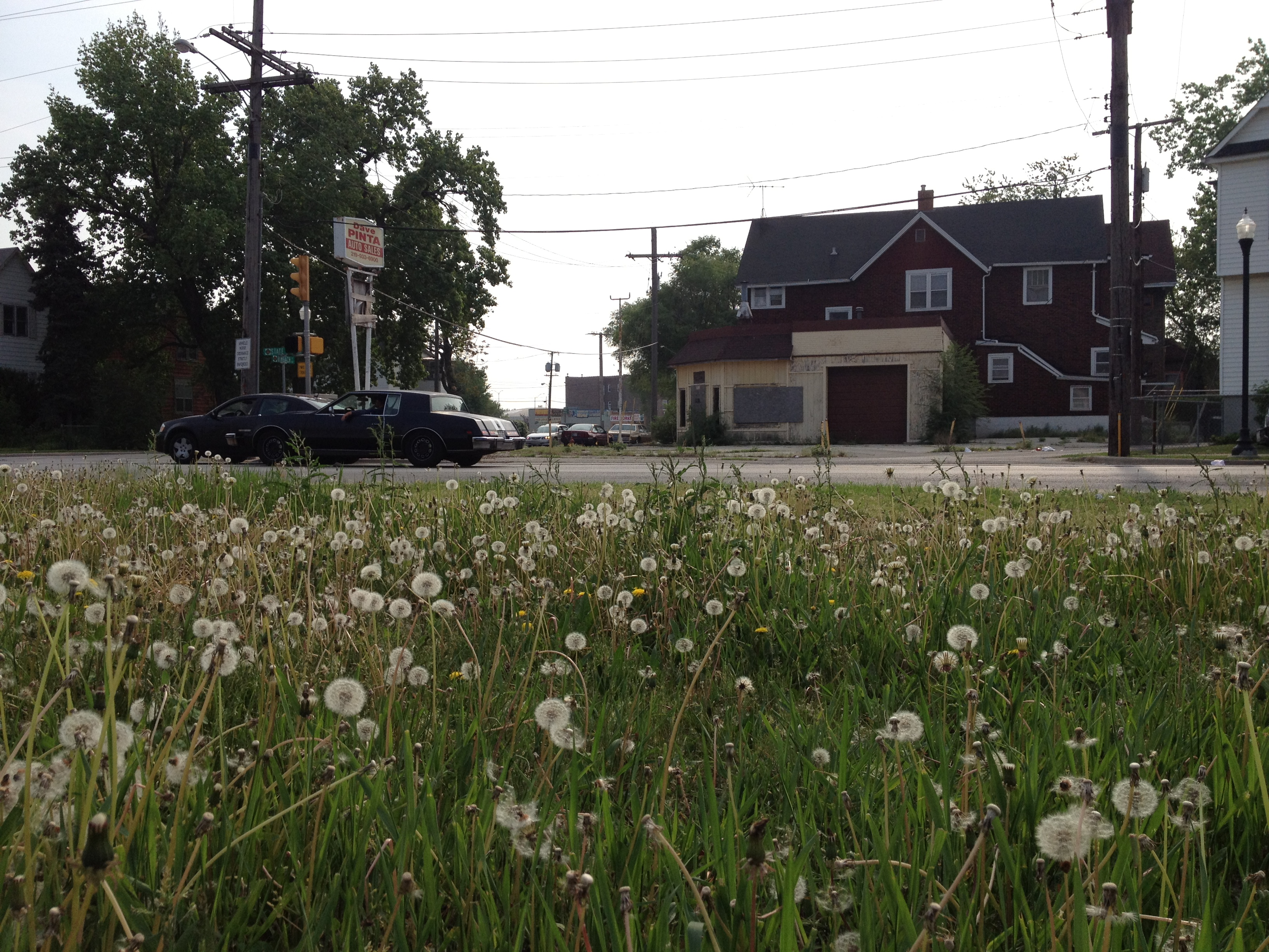 Calumet City, IL, USA